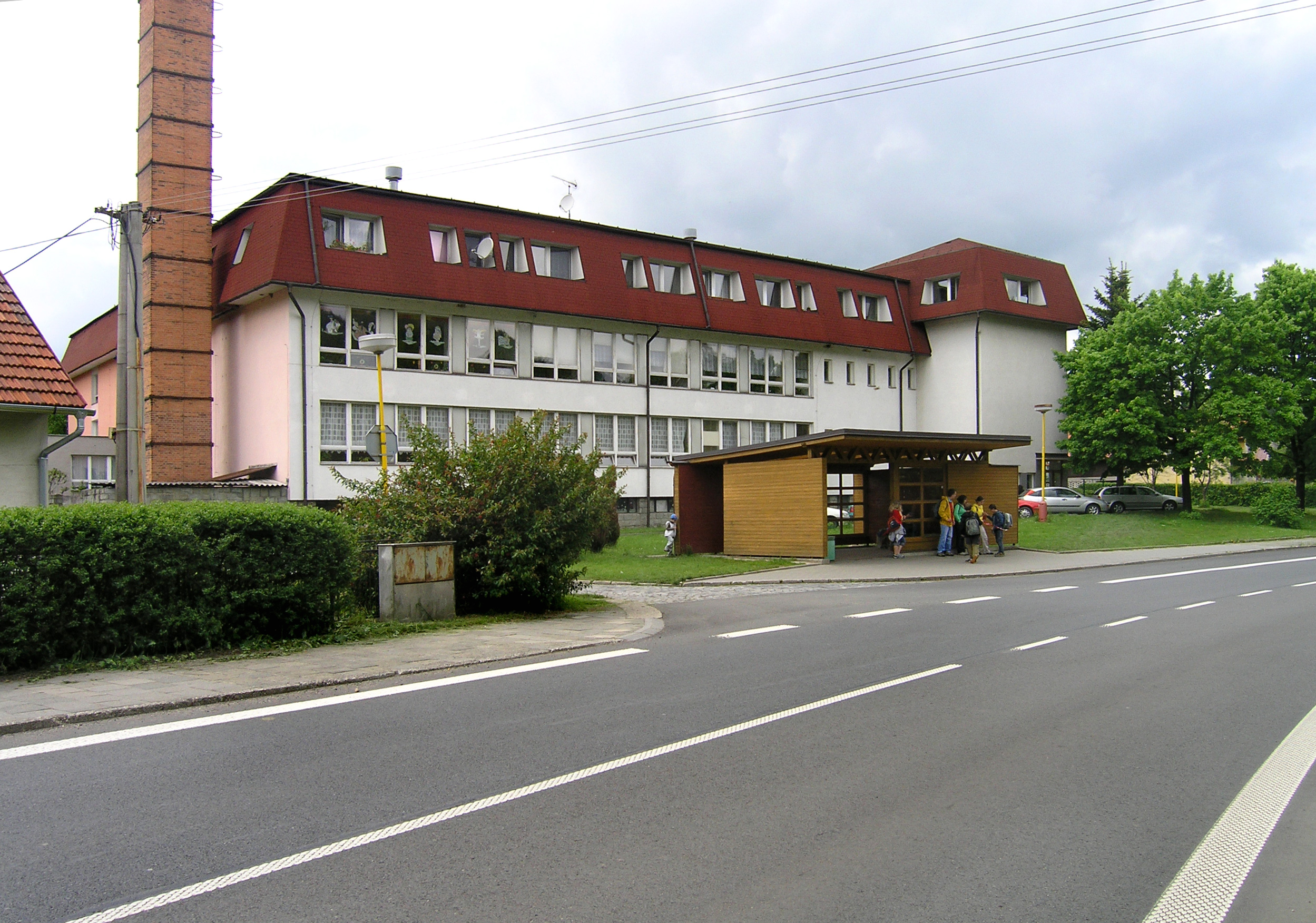 Elementary school in Valašská Polanka, Czech Republic